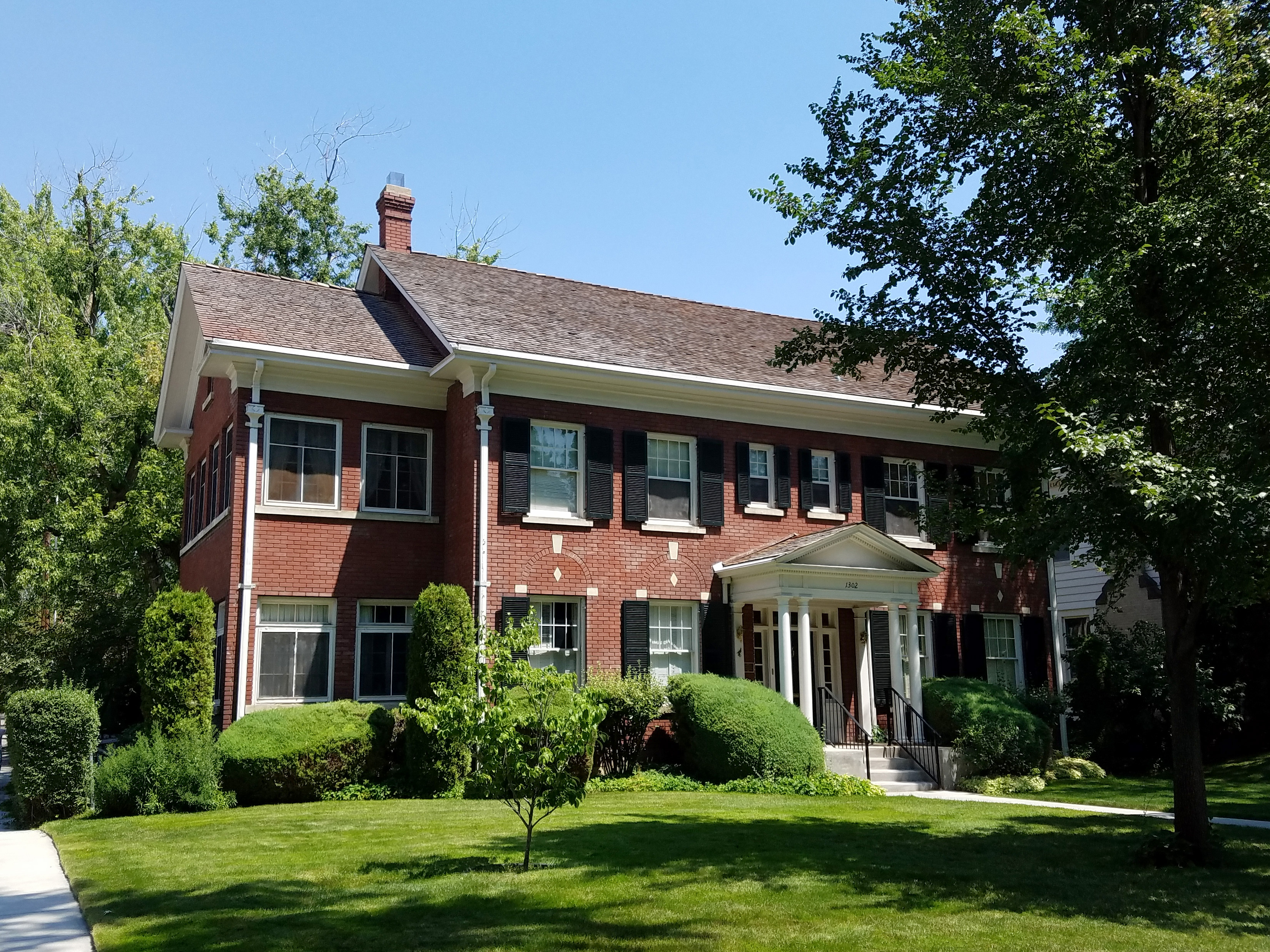 The Charles C. Cavanah house (1925) in Boise, Idaho, also known as the Angell house, was designed by Charles Hummel and is part of the Warm Springs Avenue Historic District. Cavanah was a law partner of William Borah, and he later became a federal district judge.